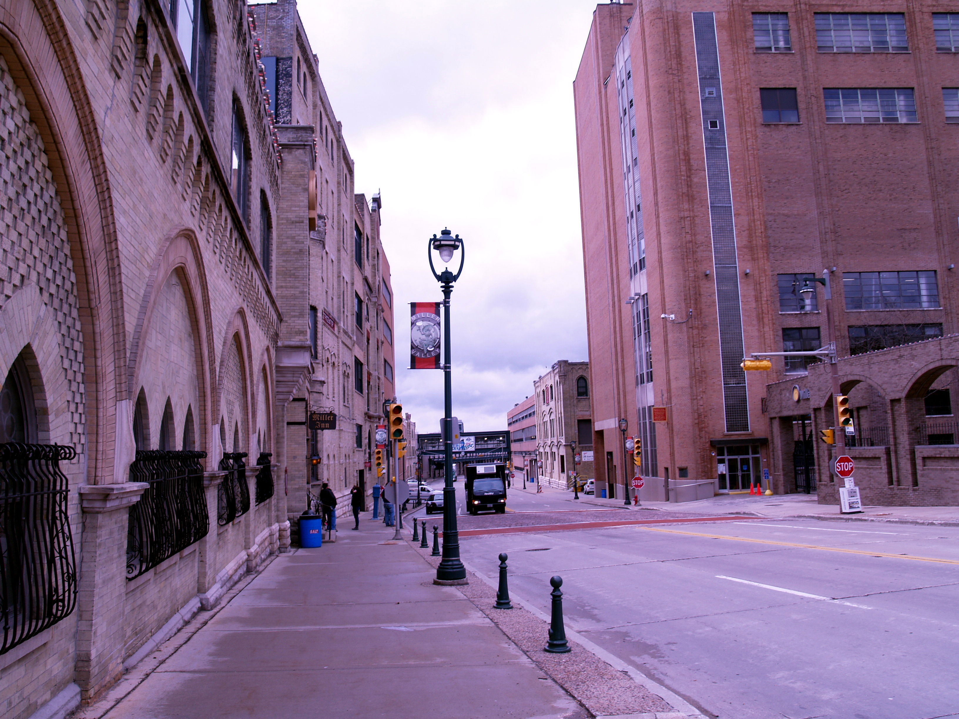 Miller Valley contains the Miller Brewing Company in Wisconsin.